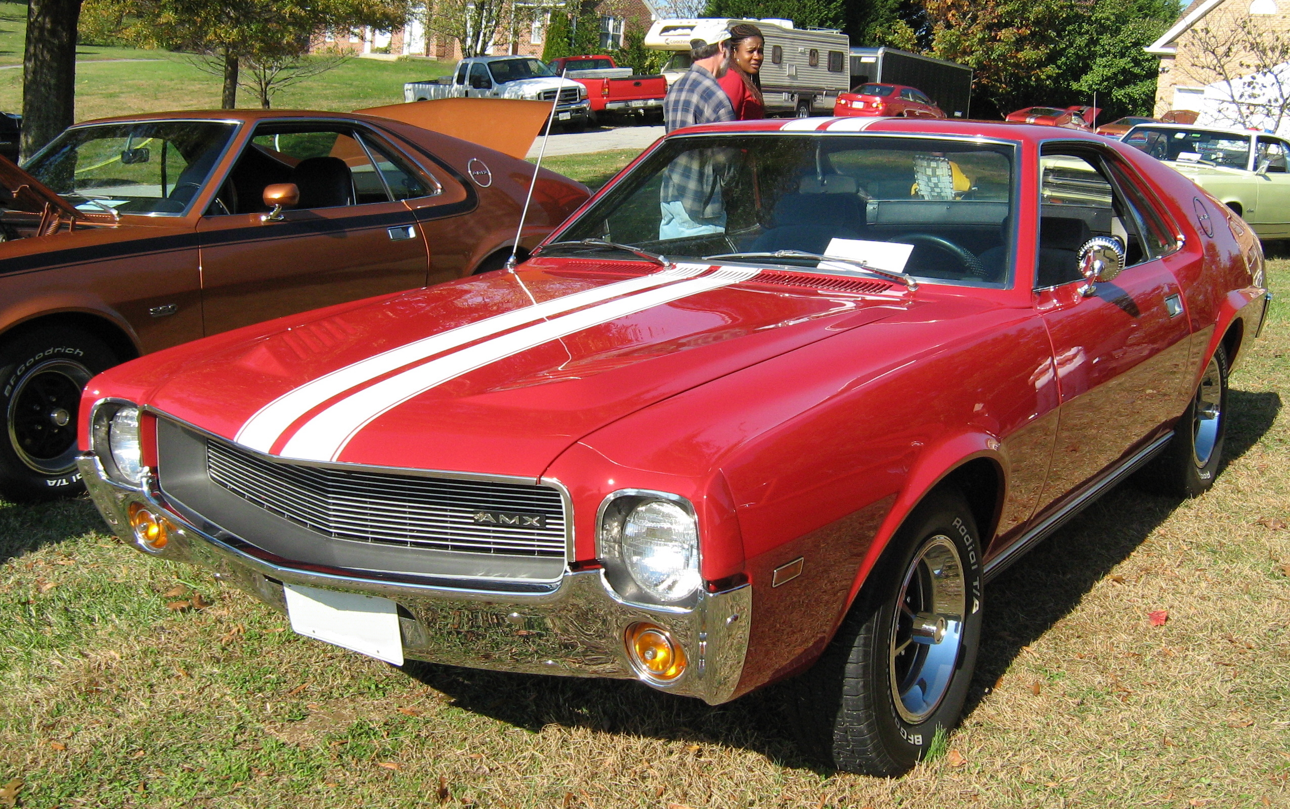 1969 AMX by American Motors Corporation (AMC) two-seat sport coupe. Red with white stripes. This car has the optional "Go Package" that included the racing stripes and high-performance components. The wheels are correct for the year, but it came with red-stripe tires from the factory.